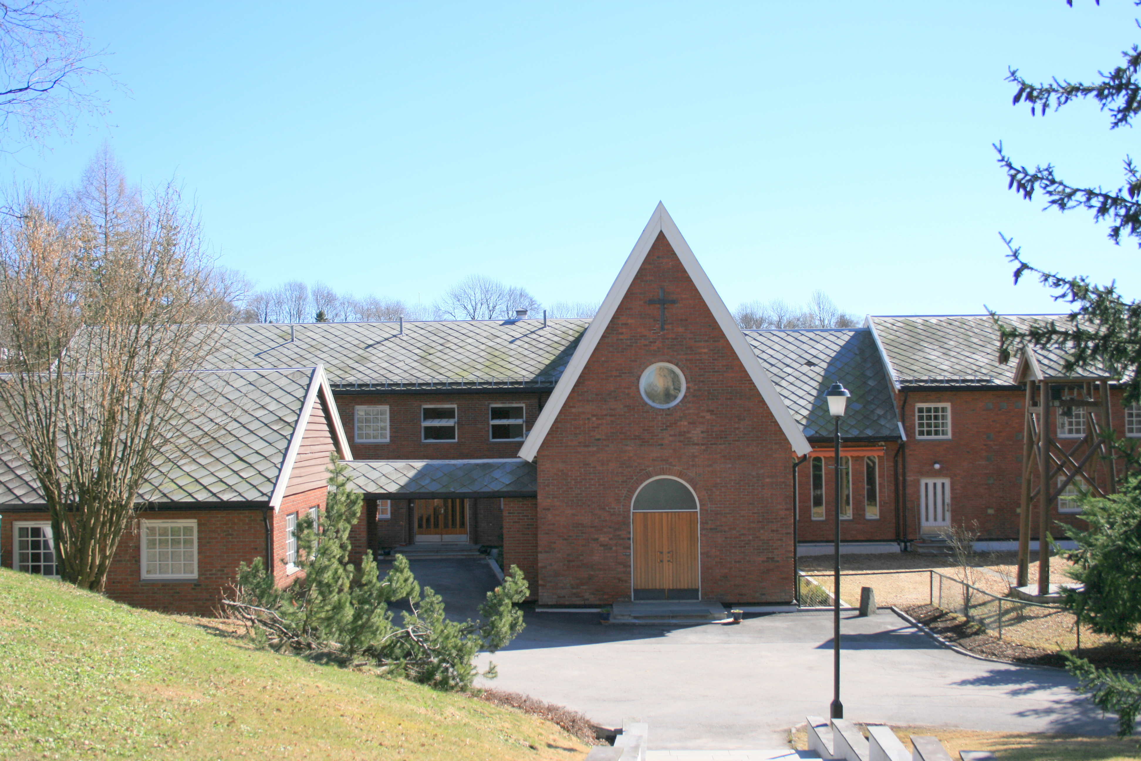 Lunden monastery in Oslo.